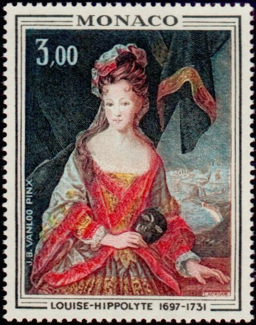 Stamp of Louise Hippolyte of Monaco